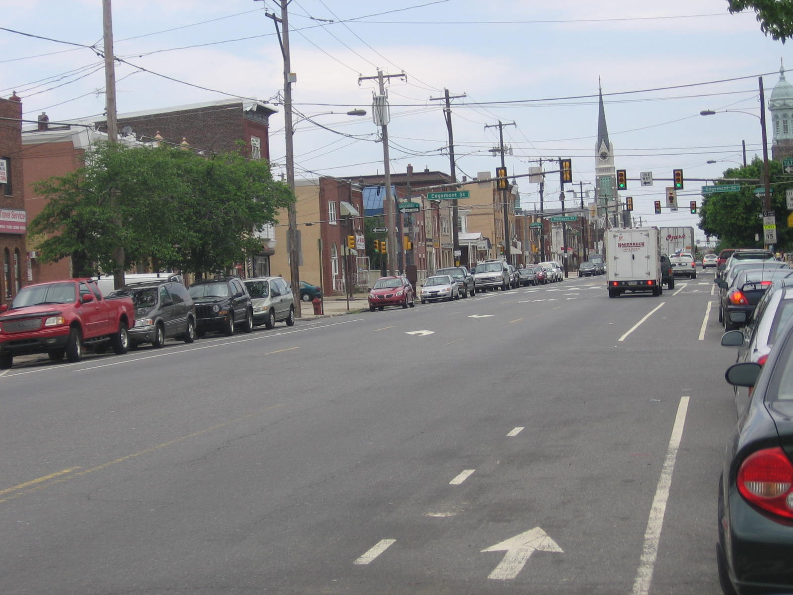 View of Allegheny Avenue in Philadelphia, Pennsylvania, looking west from Richmond Street.